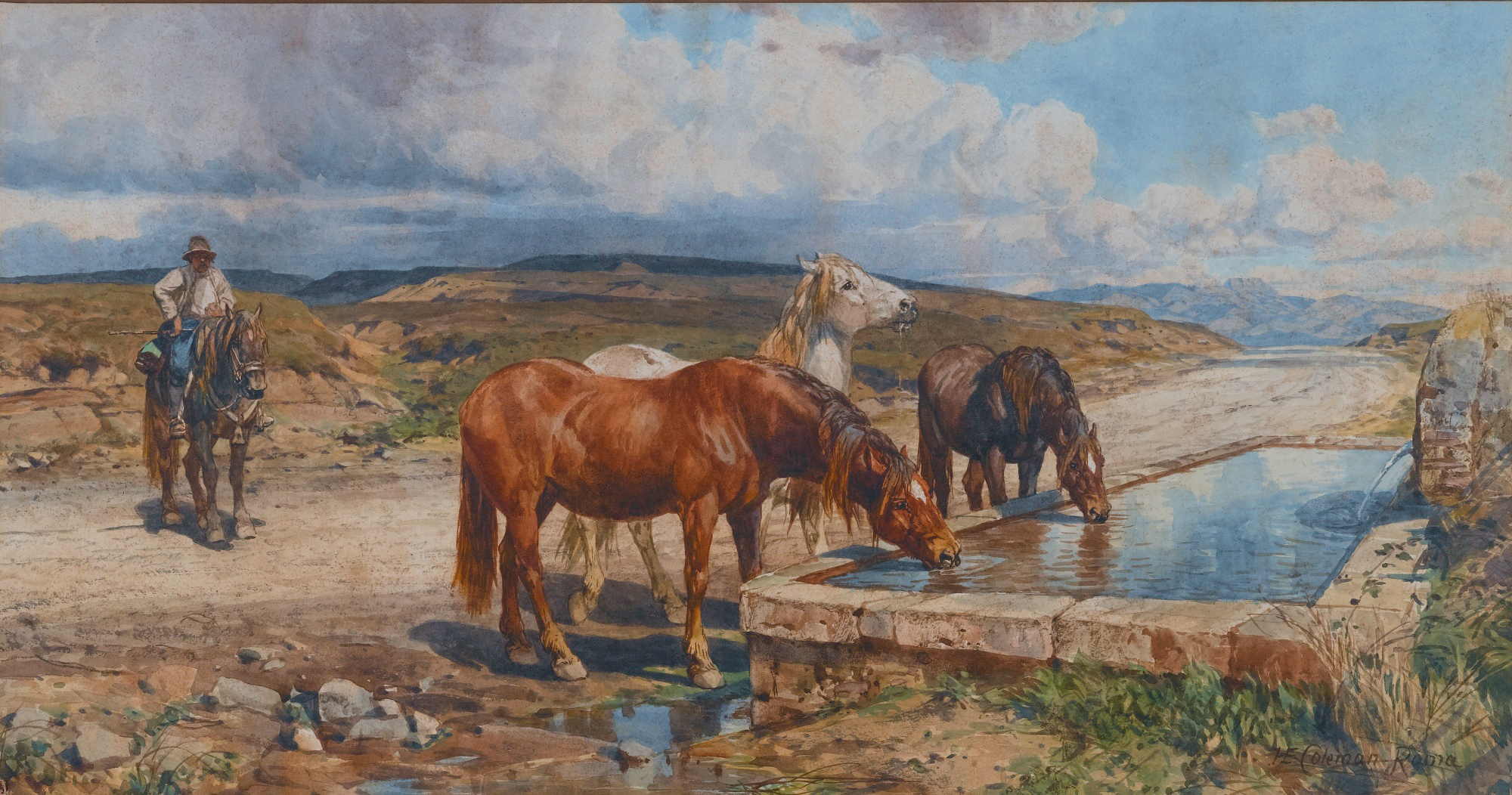 Horses drinking from a stone trough watercolour on paper 34 x 63 cm signed b.r.: H. E. Coleman Roma